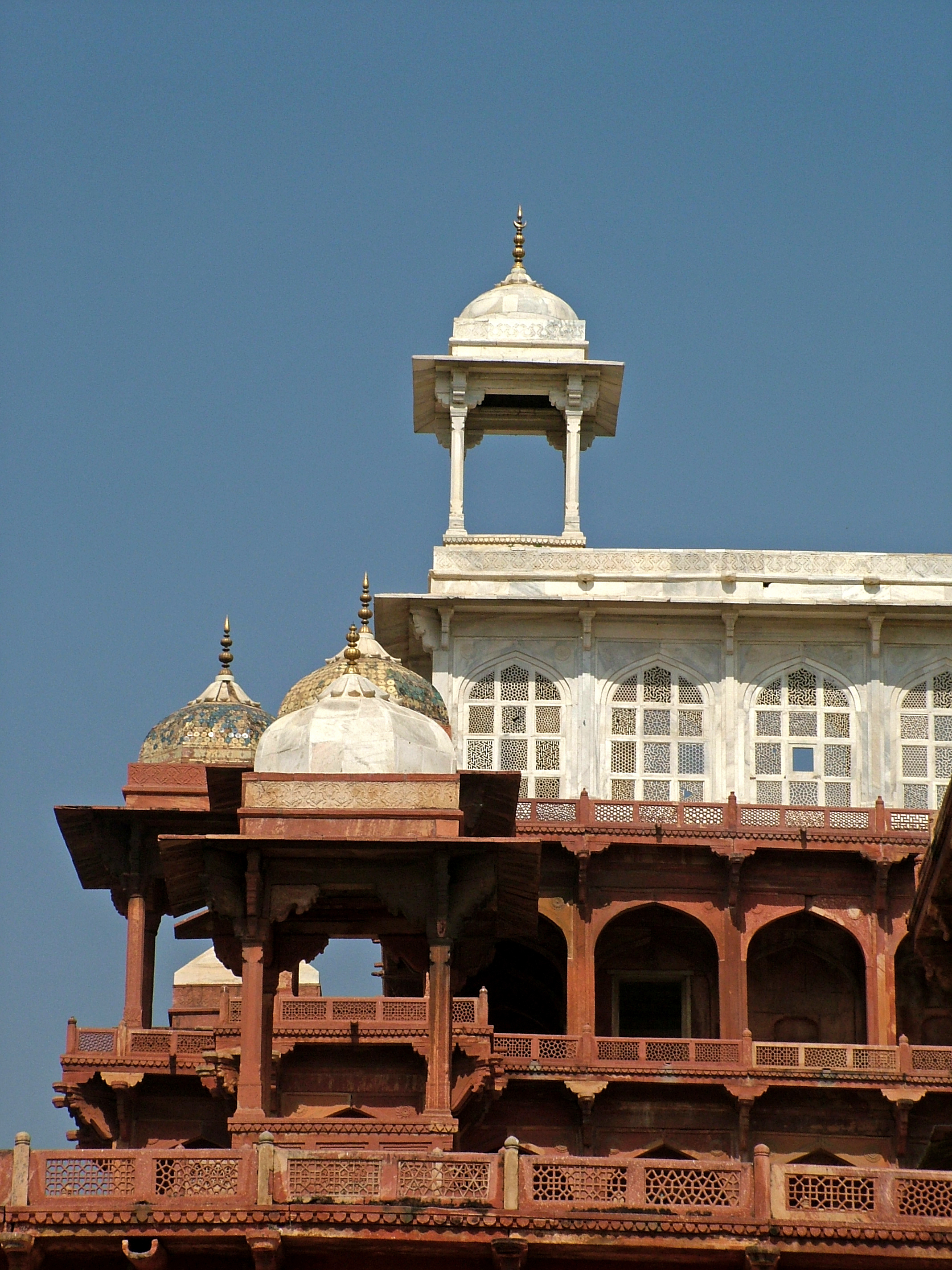 Akbar's Tomb complex, showing the chhatris on three levels. Sikandra, India.